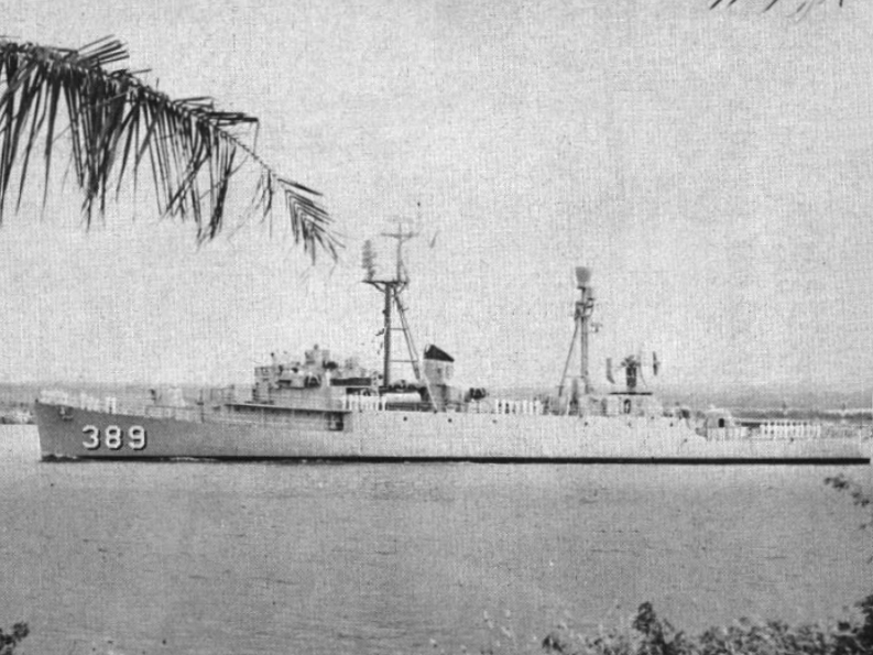 The U.S. Navy radar-picket destroyer escort USS Durant (DER-389) leaves Pearl Harbor, Hawaii (USA), for a deployment to Antarctic waters, circa 1963.